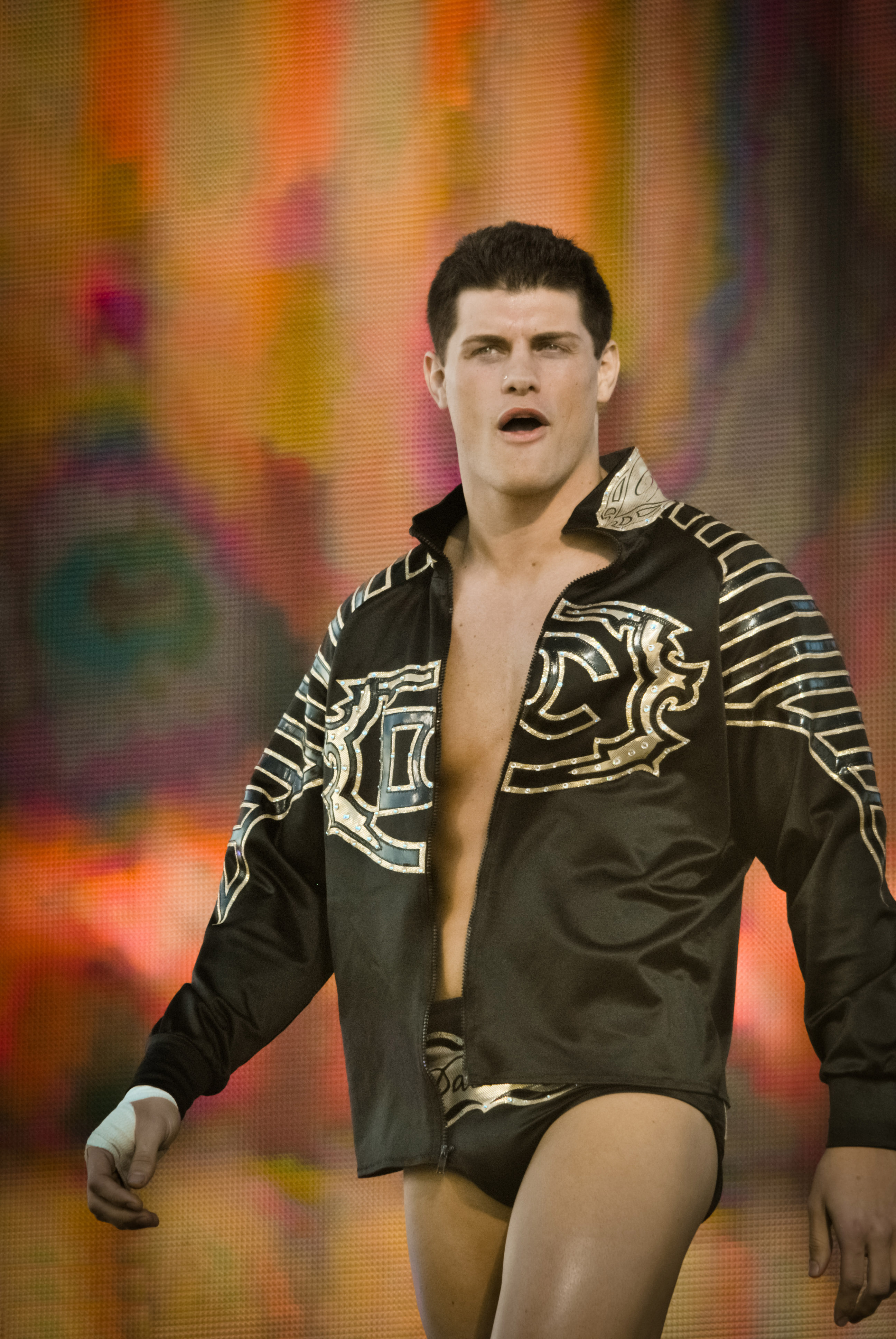 Cody Rhodes at WWE's Tribute to the Troops show in Fort Hood, Texas, on December 11, 2010.